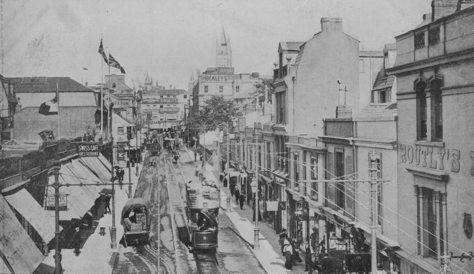 A view along Union Street, Plymouth, from the railway viaduct towards the town centre. Car 5 of the Plymouth, Stonehouse and Devonport Tramway is in the foreground.